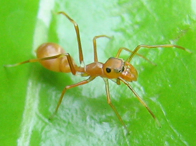 female Myrmarachne plataleoides from Thailand.